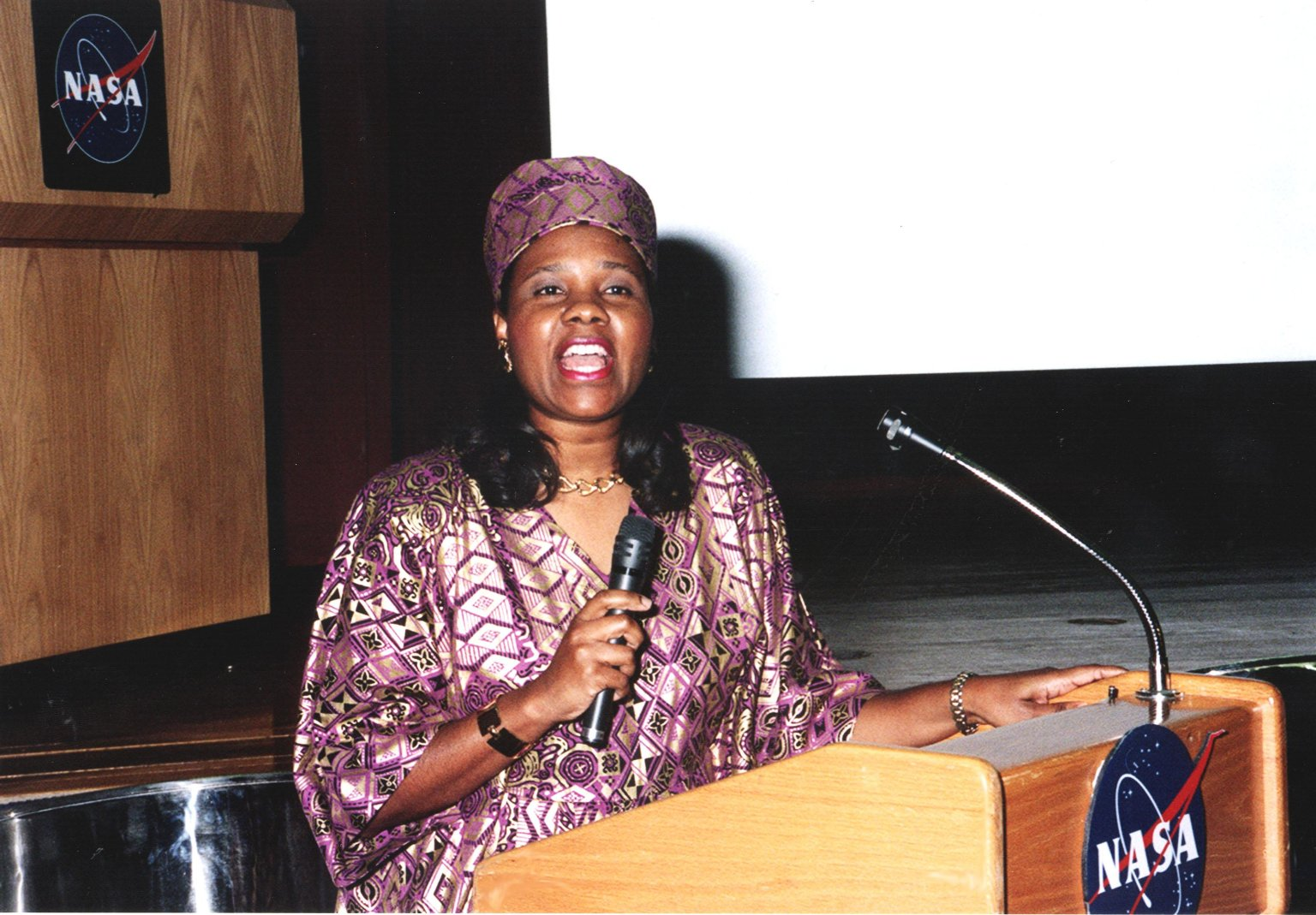 Clothed in her traditional African garb, Michelle Amos, mistress of ceremonies, welcomes the audience on Feb. 3 at the kick-off of African-American History Month. The theme for this year?s observation is "Heritage and Horizons: The African-American Legacy and the Challenges of the 21st Century." February is designated each year as a time to celebrate the achievements and contributions of African Americans to Kennedy Space Center, NASA and the nation